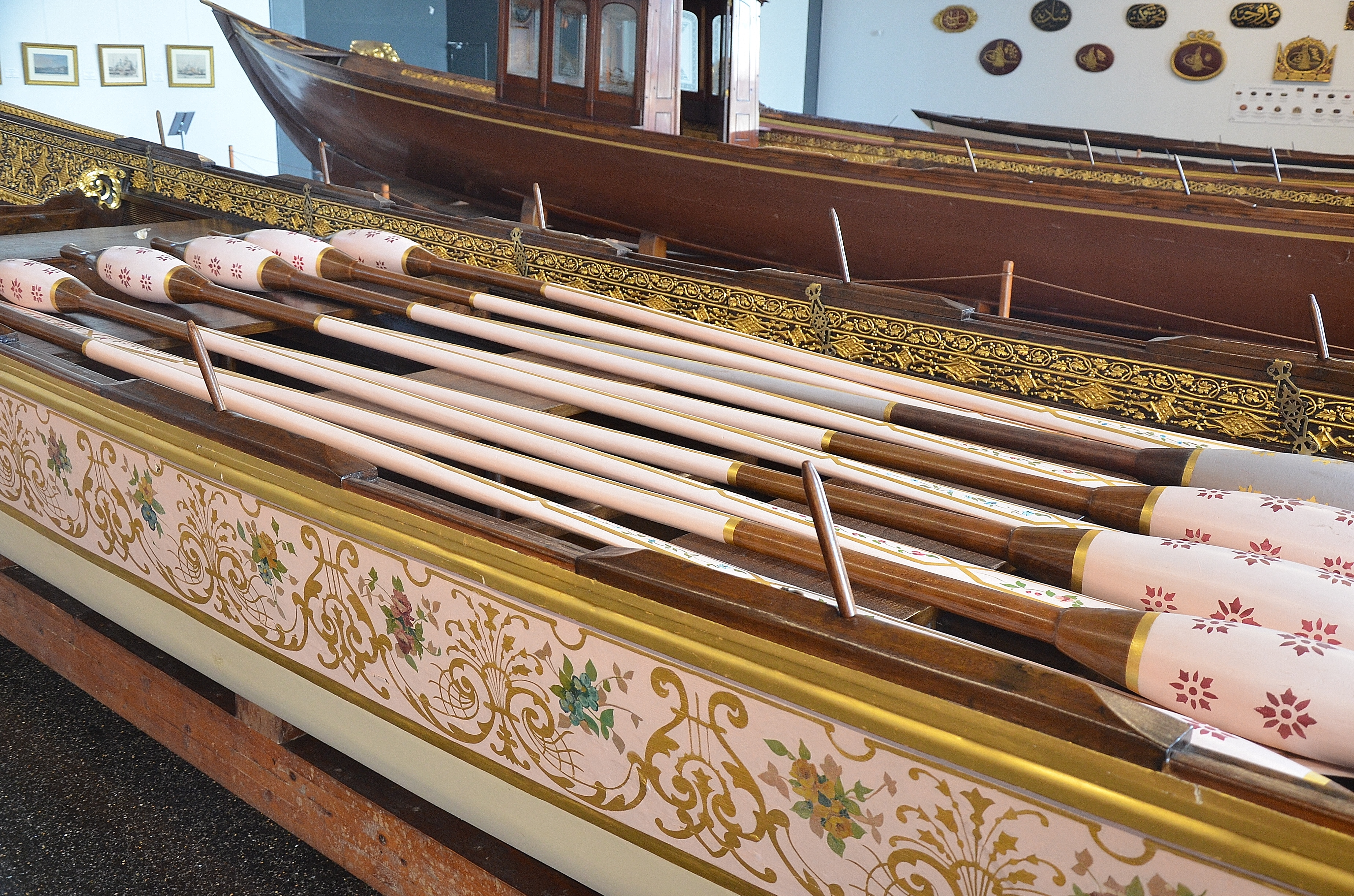 Oars of an imperial caïque in the Istanbul Naval Museum